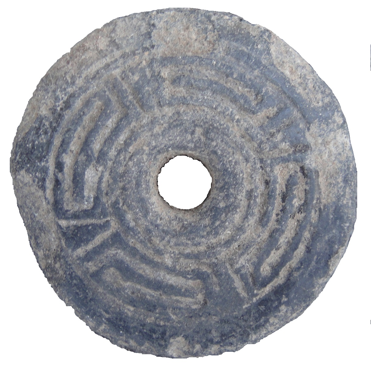 Malacate